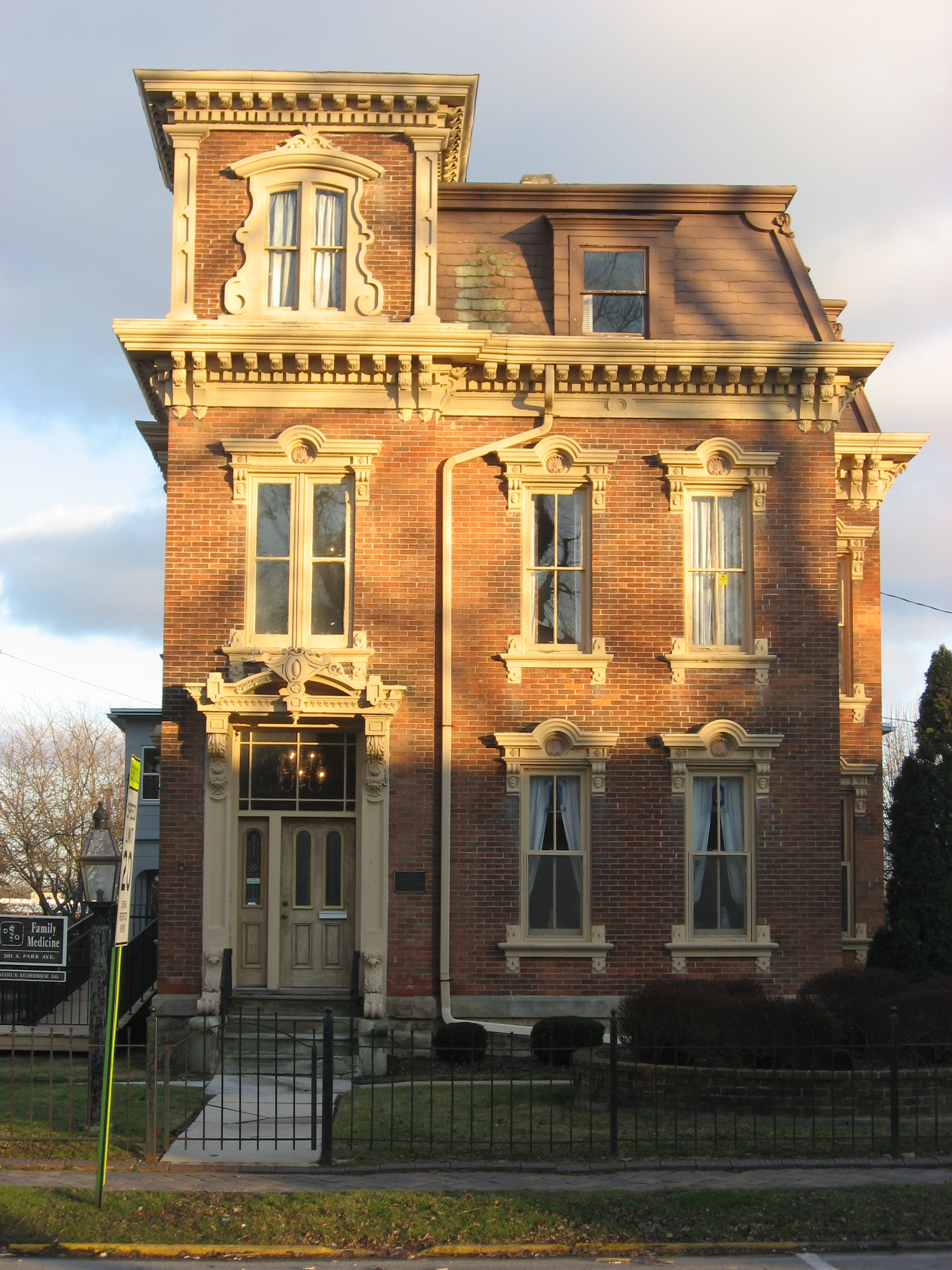 Front of the Frederick Fabing House, located at 201 S. Park Avenue in Fremont, Ohio, United States. Built in 1859, it is listed on the National Register of Historic Places. No longer a house, it is presently used as a doctor's office.